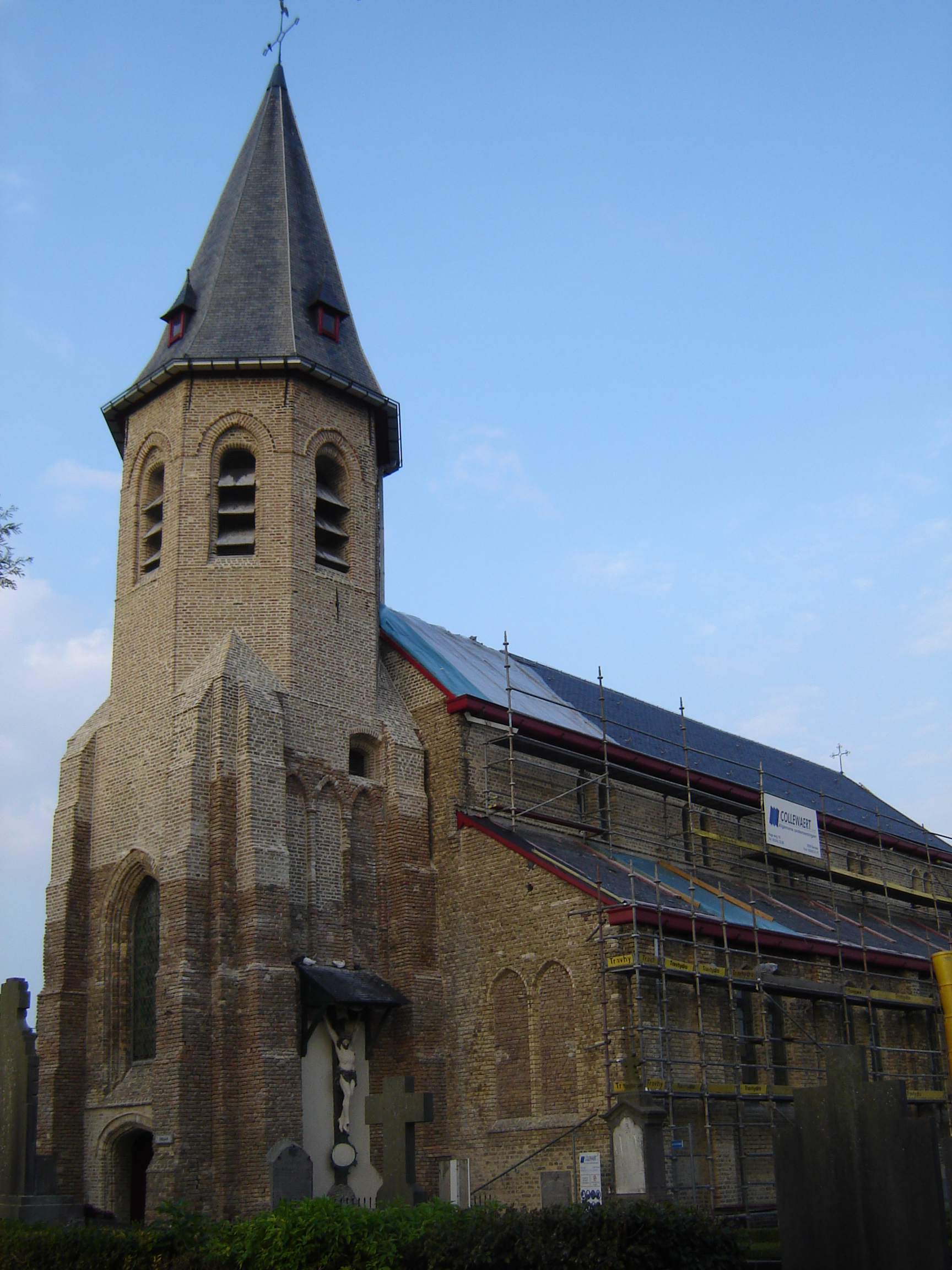 Church of Saint William in Wilskerke. Wilskerke, Middelkerke, West Flanders, Belgium